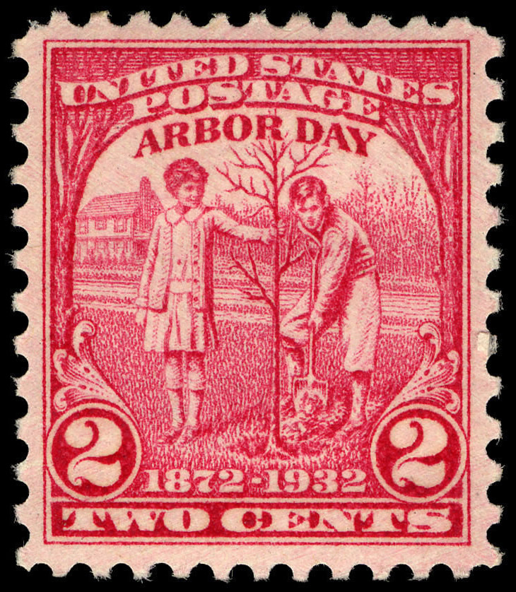 Arbor Day 2-cent 1932 issue U.S. stamp. The stamp's issue date coincided with the 100th anniversary of the birth of the founder of Arbor Day, J. Sterling Morton.